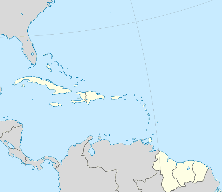 Map showing all countries in the Caribbean Football Union